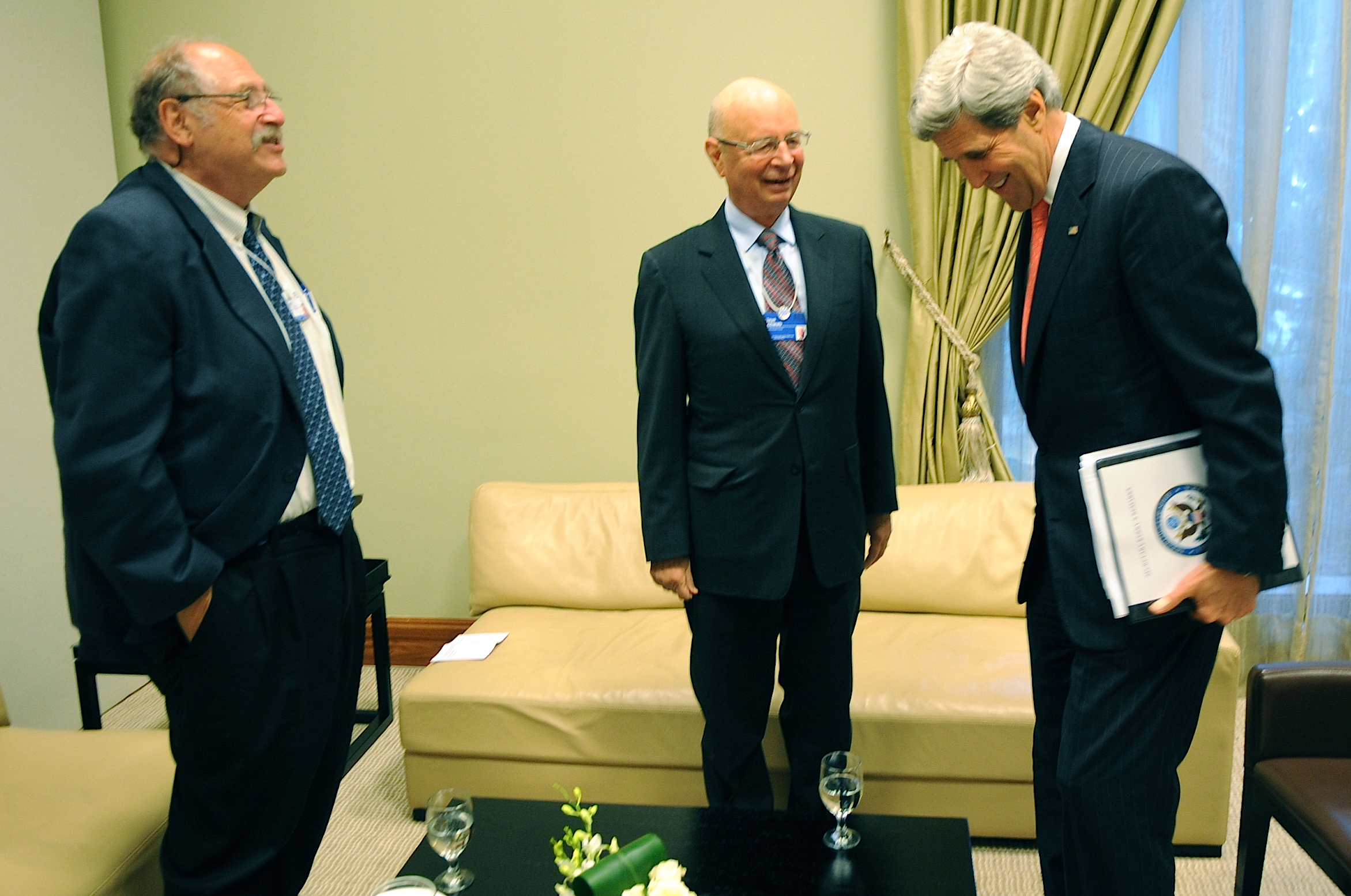 U.S. Secretary of State John Kerry shares a laugh with Klaus Schwab, center, founder of the World Economic Forum, and Yossi Vardi, left, chairman of International Technology Ventures, before the start of a session of the World Economic Forum in Dead Sea, Jordan, on May 26, 2013. [State Department photo/ Public Domain]